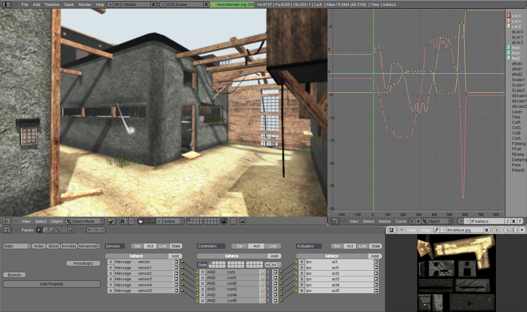 This image is licensed under the Creative Commons Share-Alike license (BY-SA). More information at